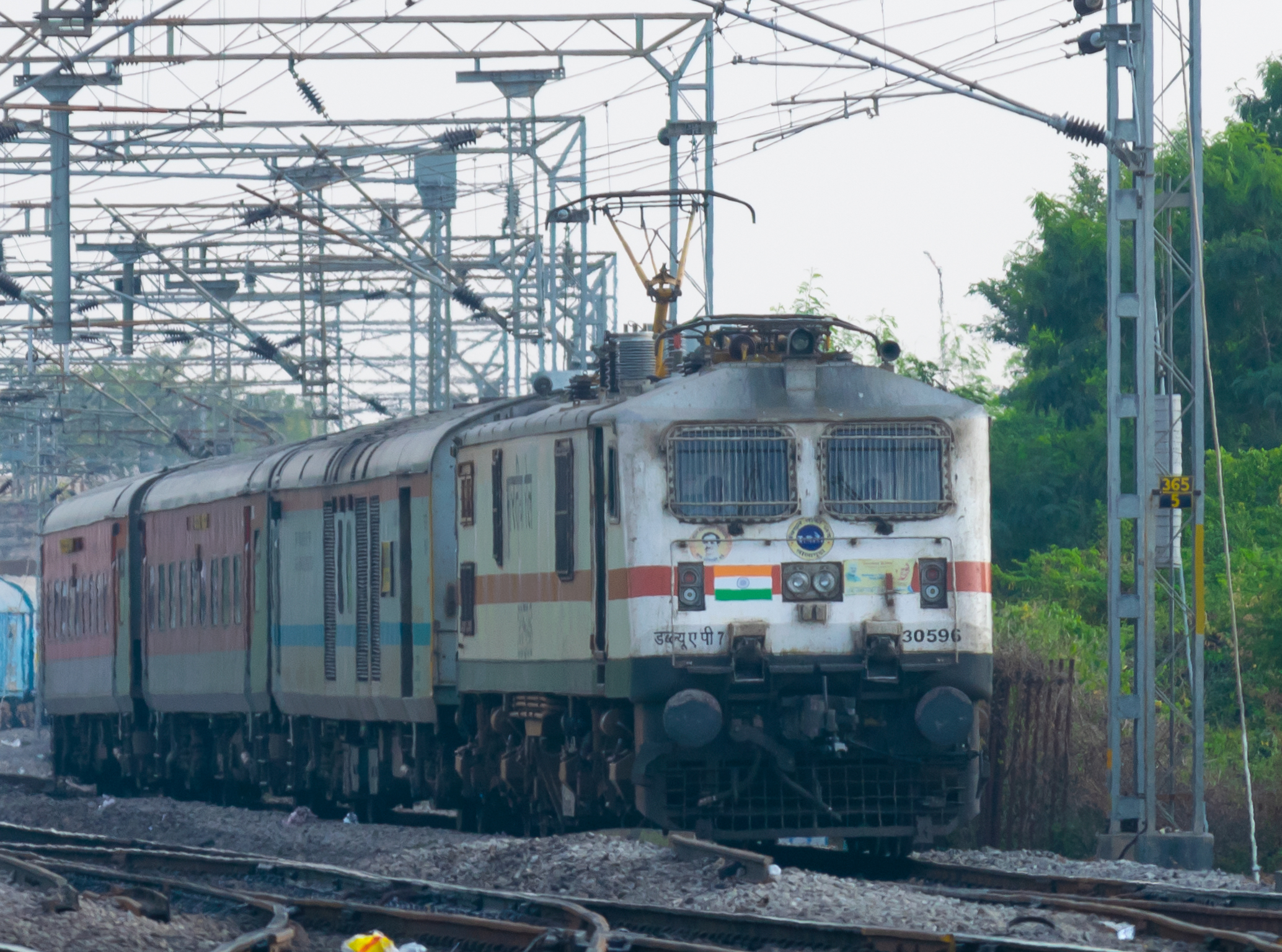 12437 SC - NZM Rajdhani Express hauled by a WAP7 of LGD near Kazipet Junction